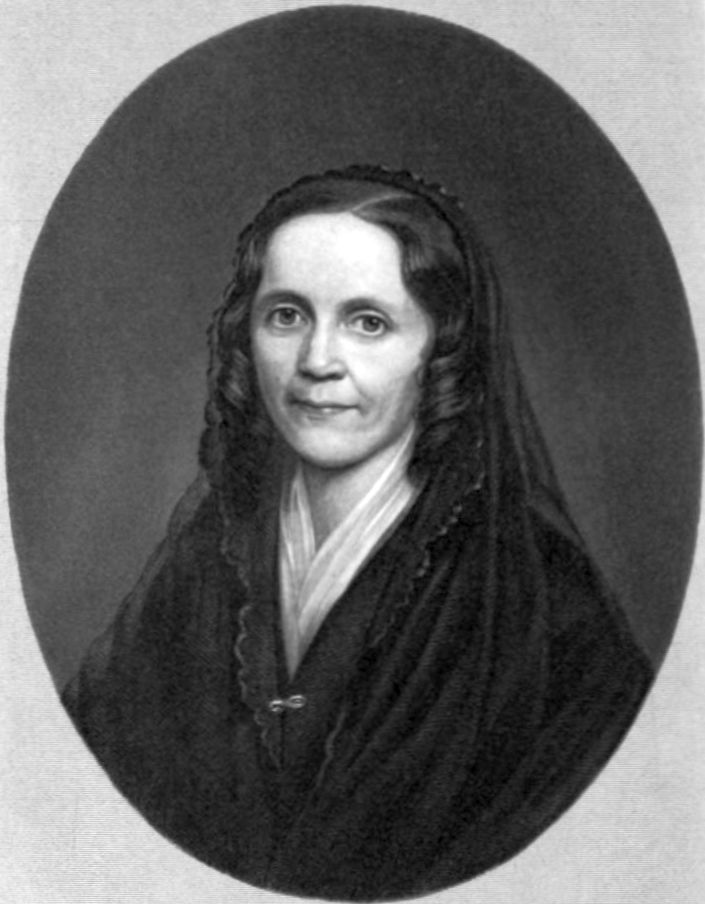 Portrait of Connecticut historian and author of religious books for children.